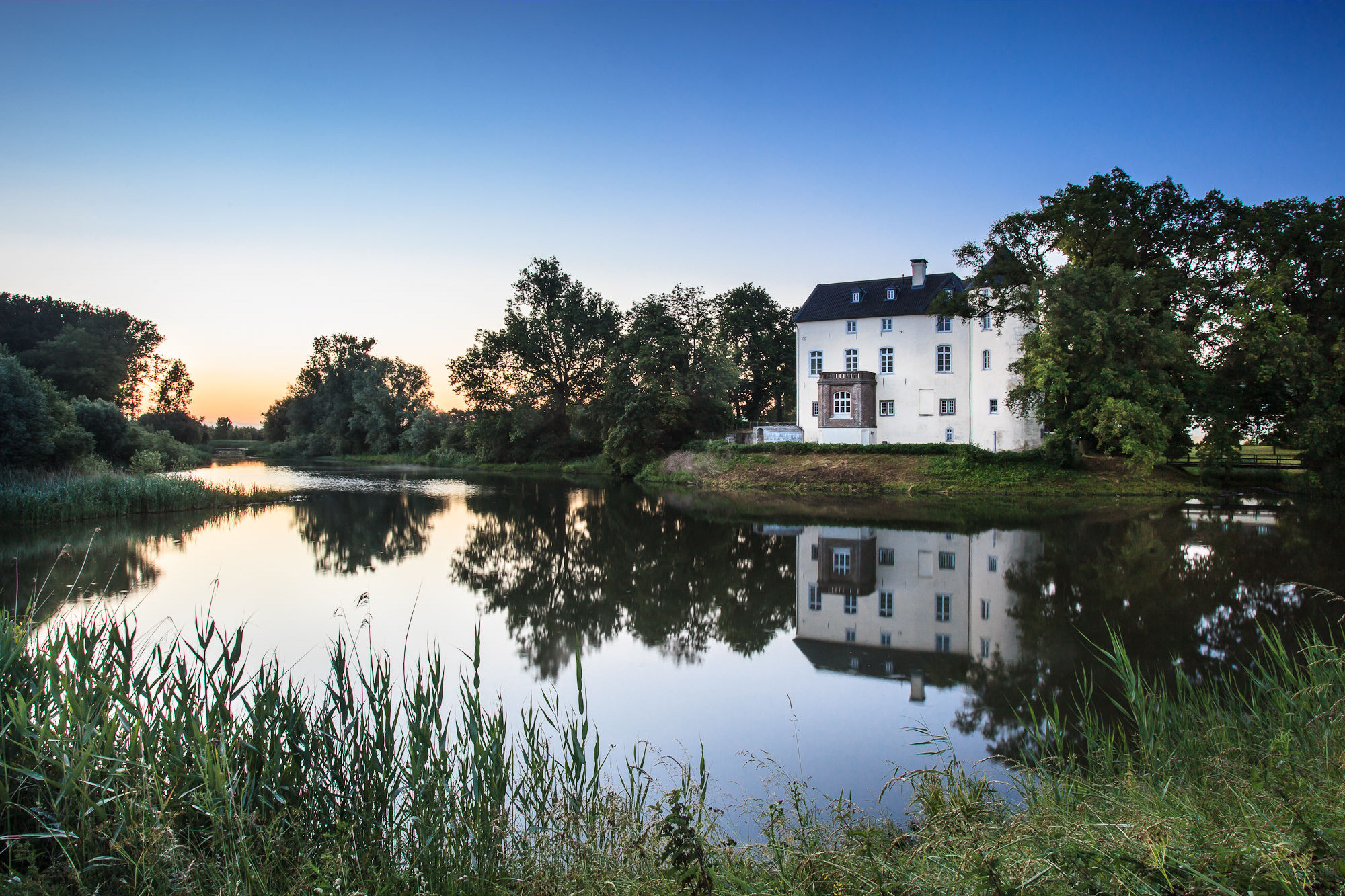 Boetzelaer Castle in Kalkar-Appeldorn, south-western aspect